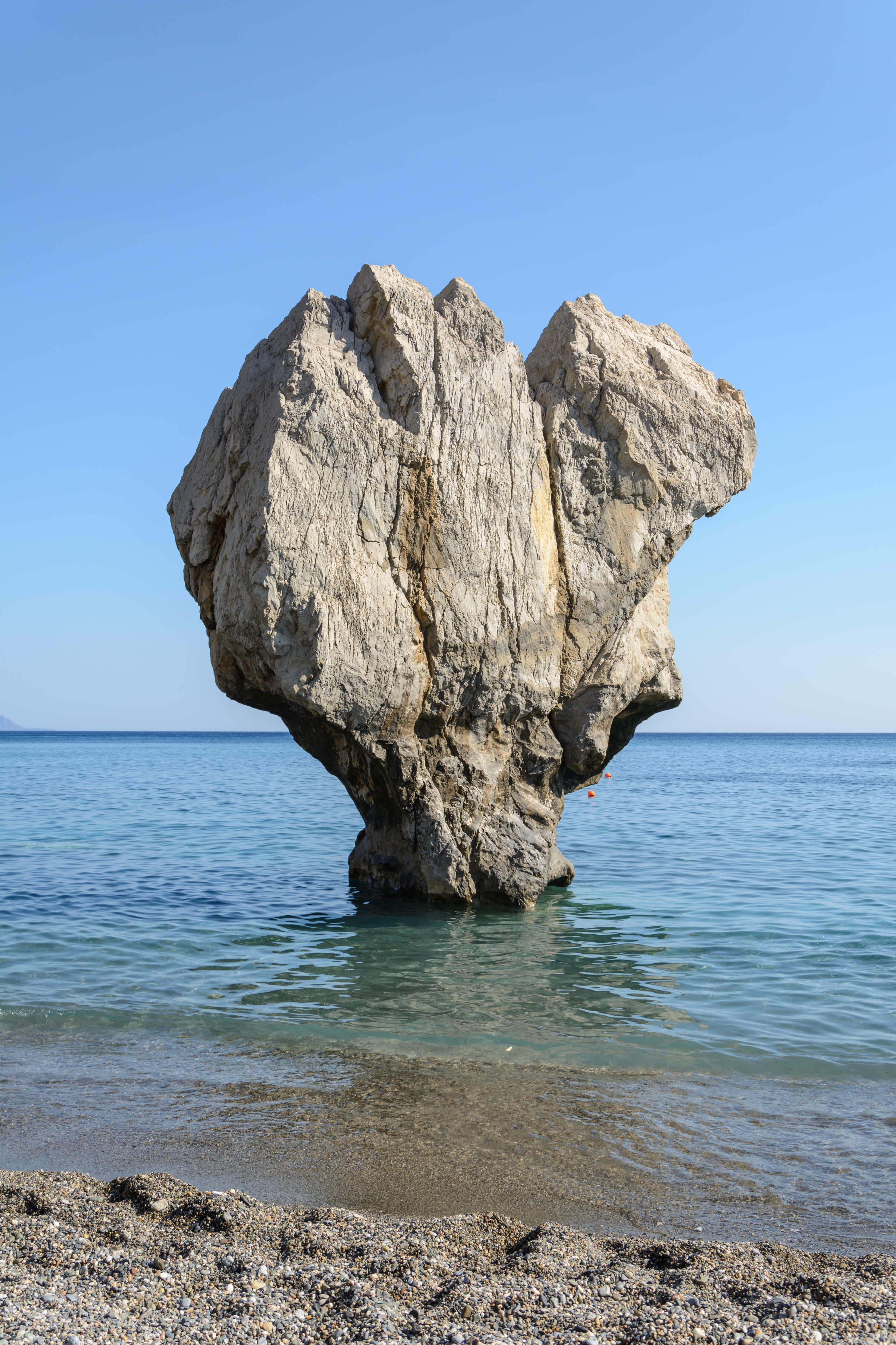 Mushroom-shaped rock next to Preveli Beach, Crete